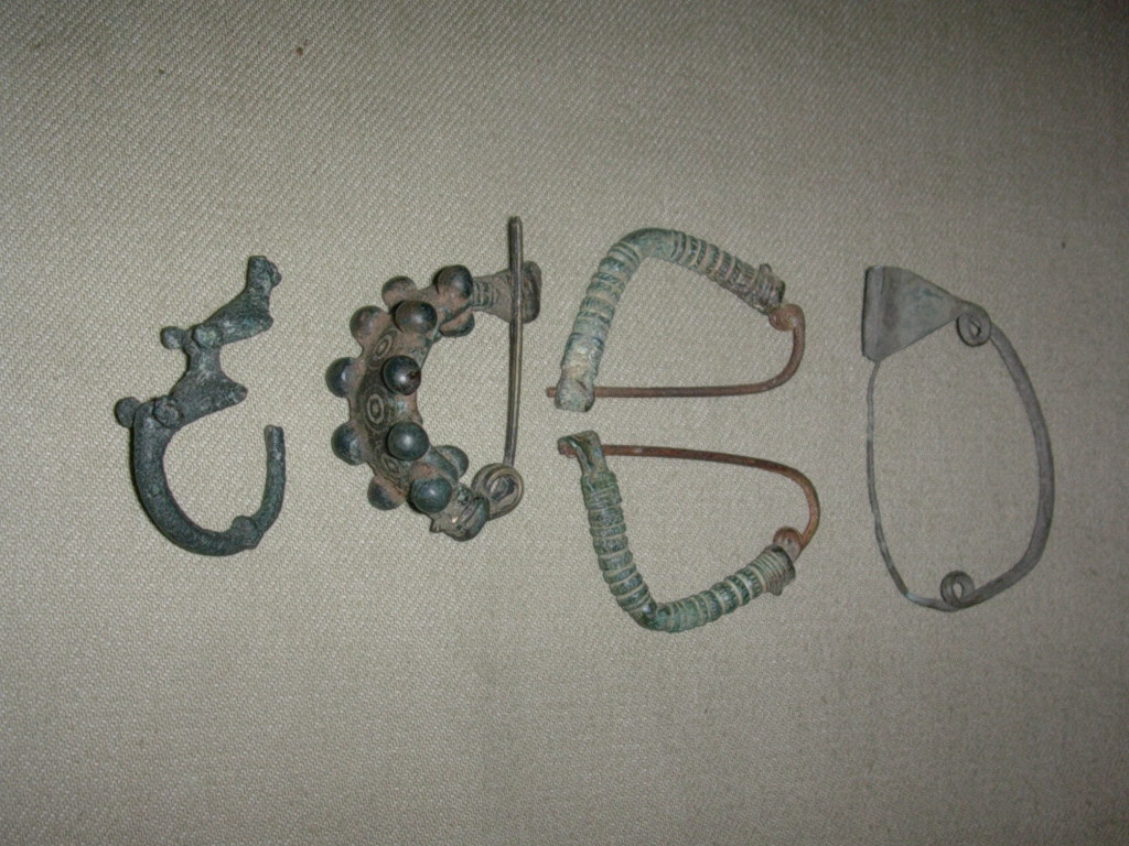 Early Bow Fibulae (Left to right.) Italianate Serpentine Fibula with spines. Villanovan. 8th-7th c. BCE. (Missing pin and foot.) Asia Minor Fibula (Type XII.8). Phrygian. 7th c. BCE. Pair of Arm Fibulae (Type XIII.12). Cypriot/Persian. 8th-7th c. BCE. Bow Fibula with triangular footplate (Type BI2, variant delta). Greek. Mid-7th-6th c. BCE.